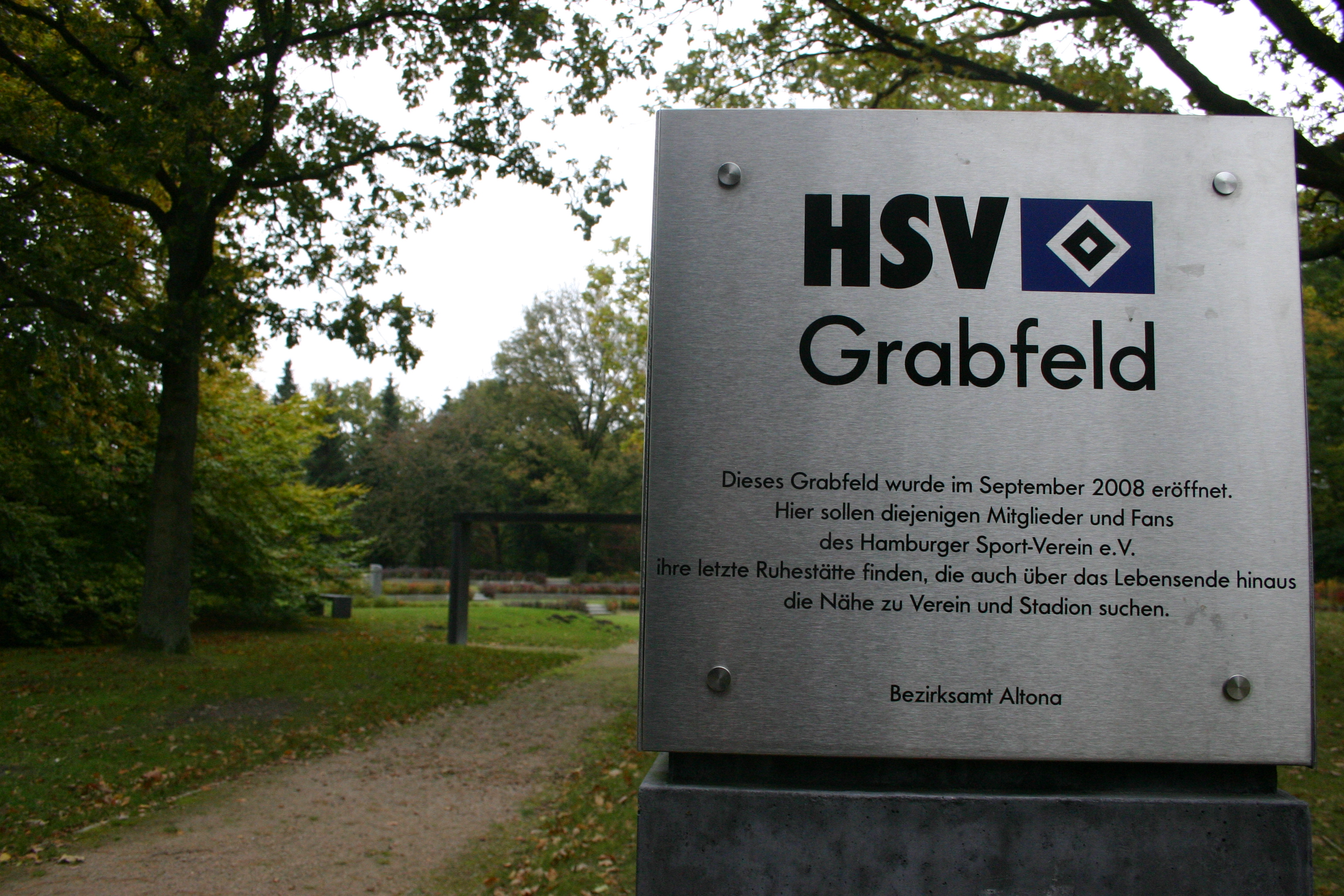 Welcome sign on the HSV cemetary, which is part of the central cemetary of Hamburg's Altona district. Fans of the Bundesliga site have the opportunity to be buried just 100 metres away from the stadium. HSV is the first European football club (and the second worldwide after Boca Juniors of Buenos Aires) to offer such an opportunity.